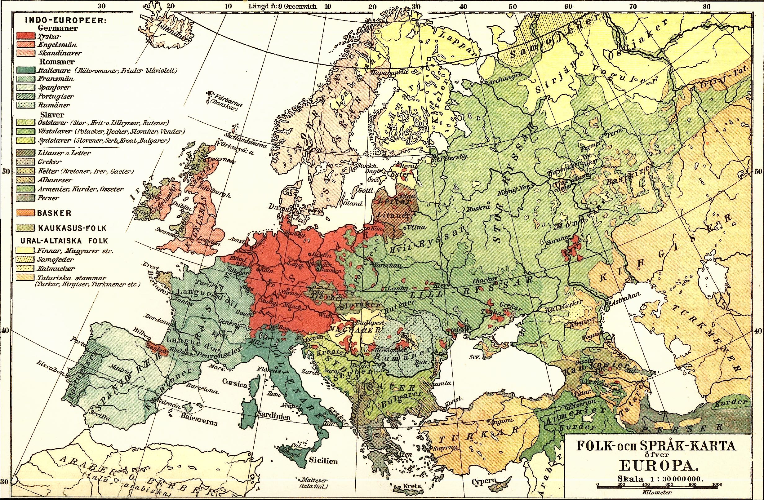 Linguistic map of Europe, 1907